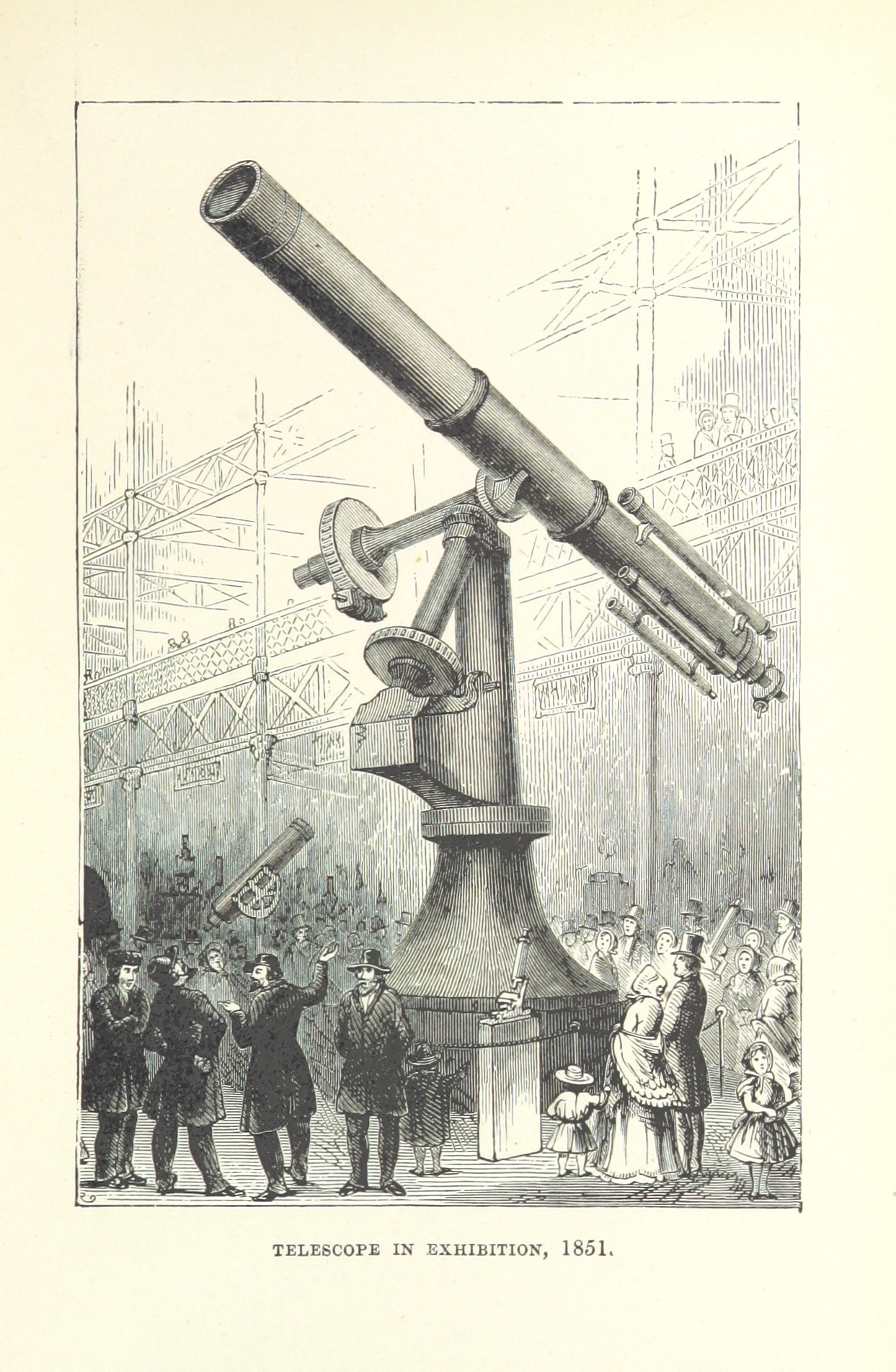 Image taken from: Title: "The Half Hour Library of Travel, Nature and Science for young readers" Shelfmark: "British Library HMNTS 10027.ee." Volume: 03 Page: 237 Place of Publishing: London Date of Publishing: 1896 Publisher: James Nisbet & Co. Issuance: monographic Identifier: 001567835 Explore: Find this item in the British Library catalogue, 'Explore'. Open the page in the British Library's itemViewer (page image 237) Download the PDF for this book Image found on book scan 237 (NB not a pagenumber)Download the OCR-derived text for this volume: (plain text) or (json) Click here to see all the illustrations in this book and click here to browse other illustrations published in books in the same year. Order a higher quality version from here.